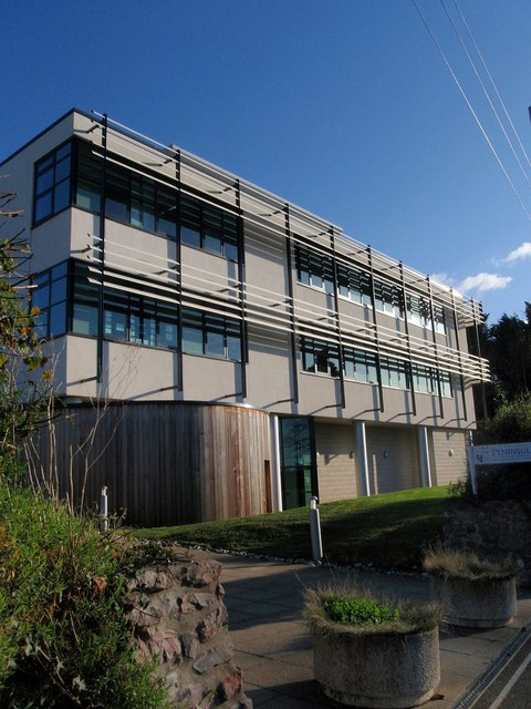 Peninsula Medical School building, Exeter. Facing Barrack Road on the Wonford site of the Royal Devon & Exeter Hospital, this building was completed in August 2004. "It provides seminar/teaching rooms, offices for academic staff, a new library, a 130-seat lecture theatre and a component of research accommodation." The school also occupies one of the older buildings on the Heavitree hospital site - see 1064628.